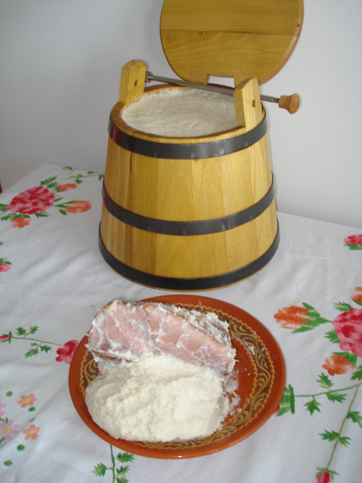 Meat and minced "salo" (fat) from "tiblitsa" wooden barrel - regional dish of Medjimurje County, Croatia